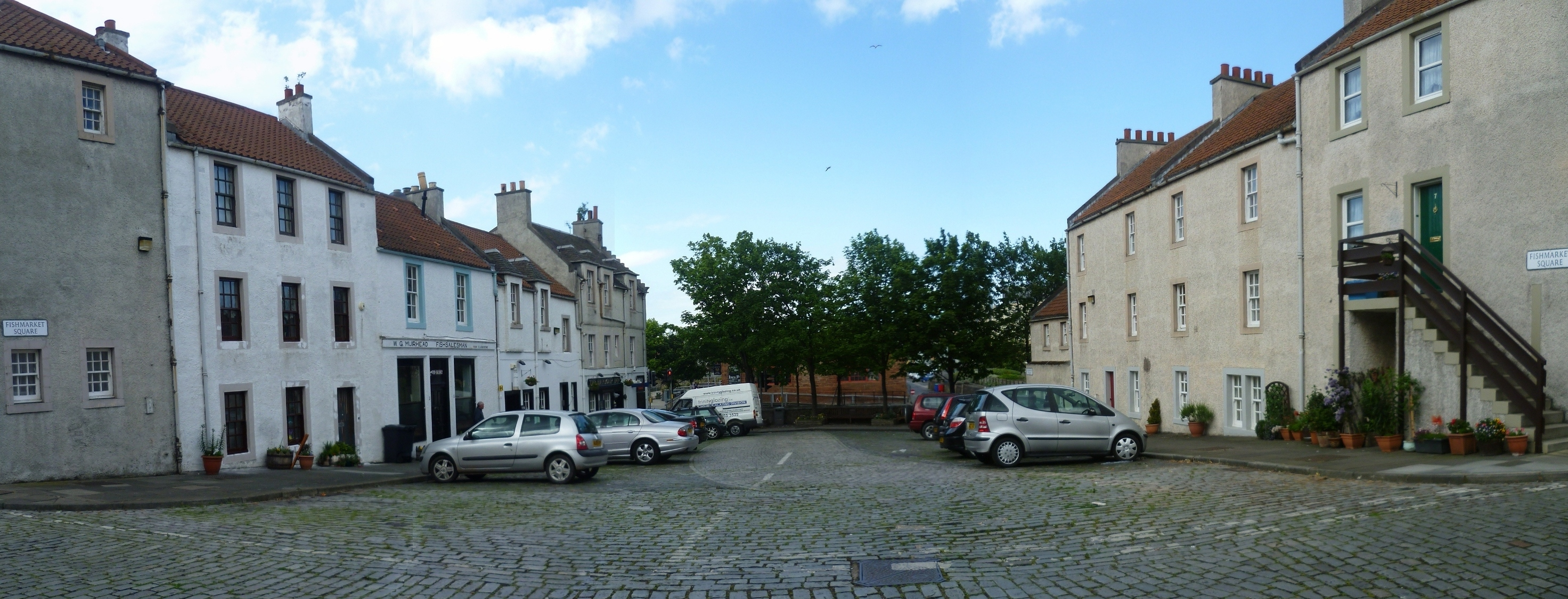 Fishmarket Square, Newhaven (composite photograph)